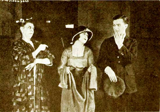 Still from the American film The Game's Up (1919) with Ruth Clifford (center) and Albert Ray, on page 72 of the January 4, 1919 Moving Picture World.